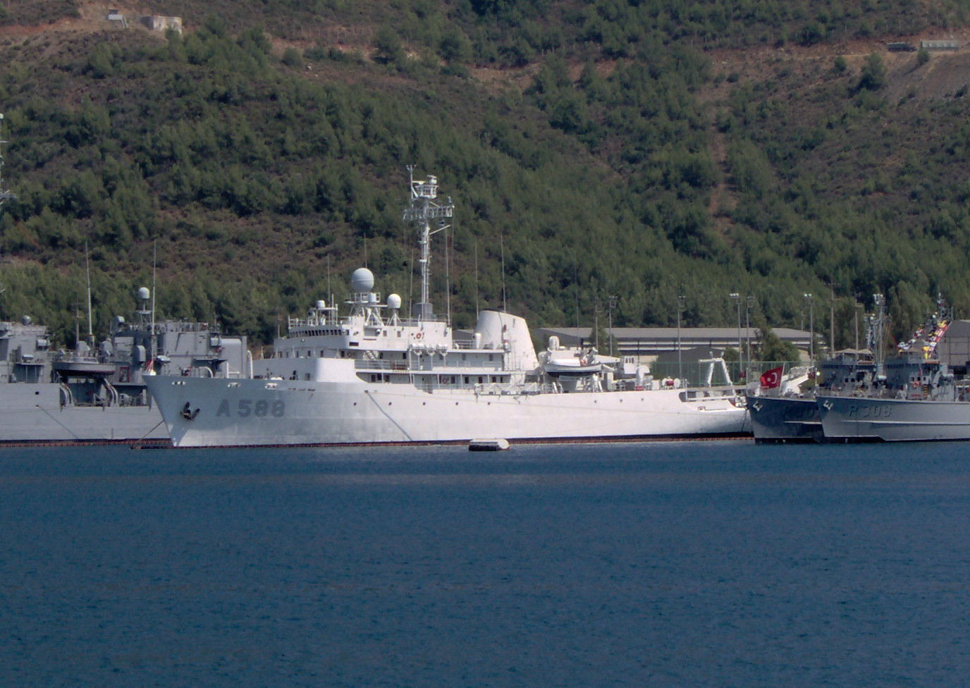 TCG Çandarlı (A-588), TCG Karamürsel (P-307), TCG Kerempe (P-308) off Aksaz, July 17, 2006. Note: Ex-USNS Elisha Kent Kane (T-AGS 27), Silas Bent class.